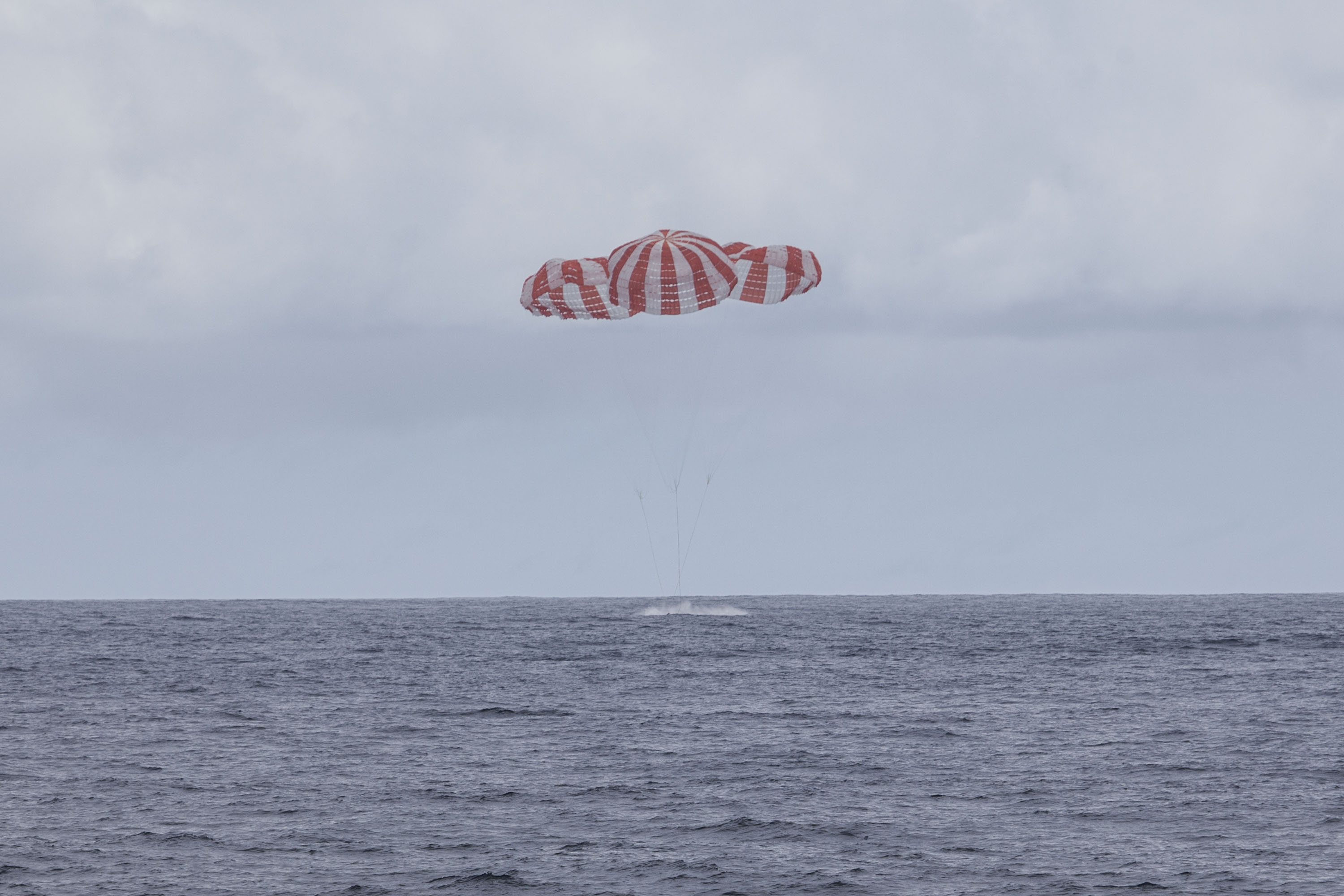 SpaceX’s Falcon 9 rocket and Dragon spacecraft launched from Launch Complex 40 at the Cape Canaveral Air Force Station, Florida, for their fourth official Commercial Resupply (CRS) mission to the orbiting lab on Sunday, September 21 at 1:52am EDT. Dragon returned to Earth with a parachute-assisted splashdown off the coast of southern California on October 25. Dragon is the only operational spacecraft capable of returning a significant amount of supplies back to Earth, including experiments.